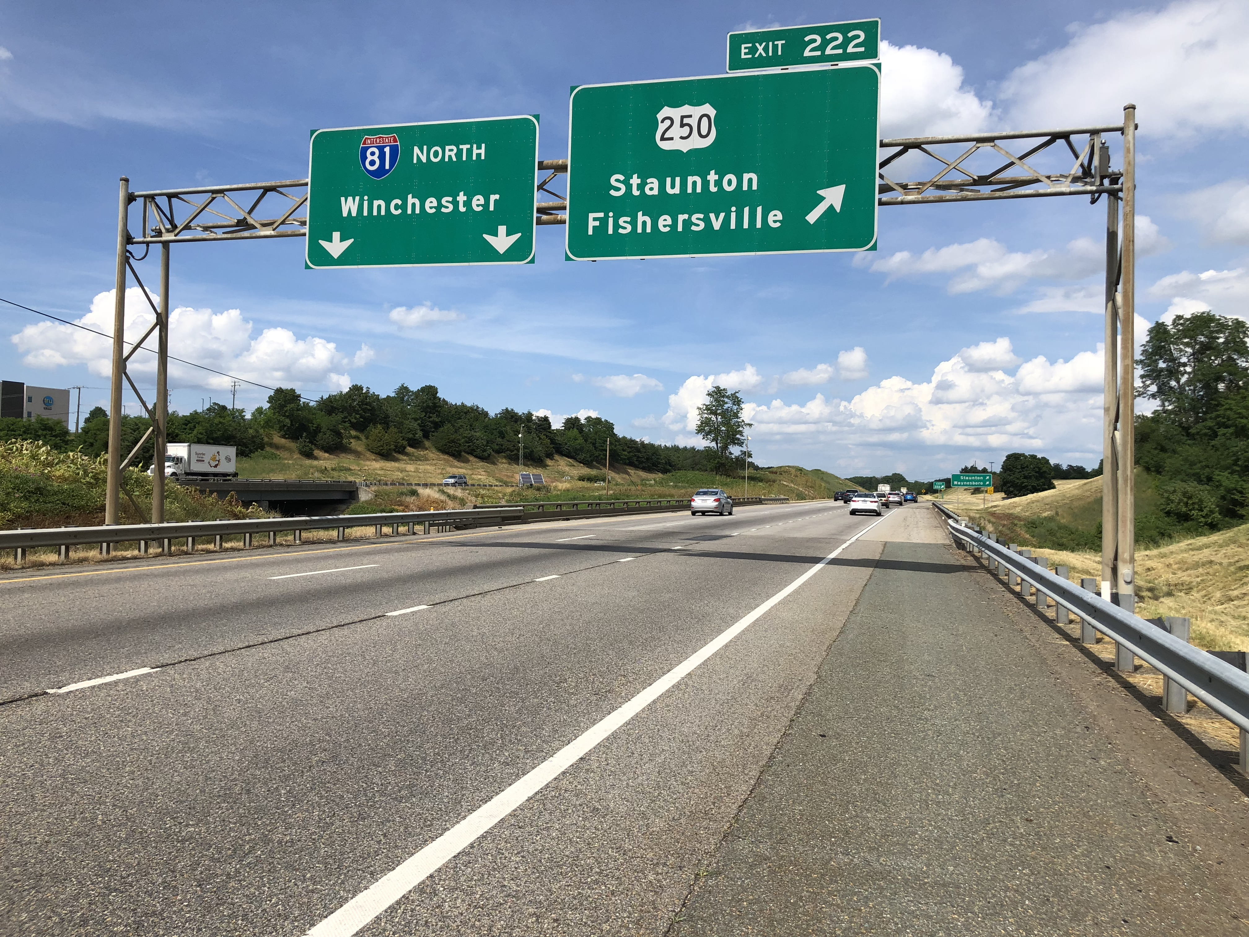 View north along Interstate 81 at Exit 222 (U.S. Route 250, Staunton, Fishersville) in Peyton, Augusta County, Virginia